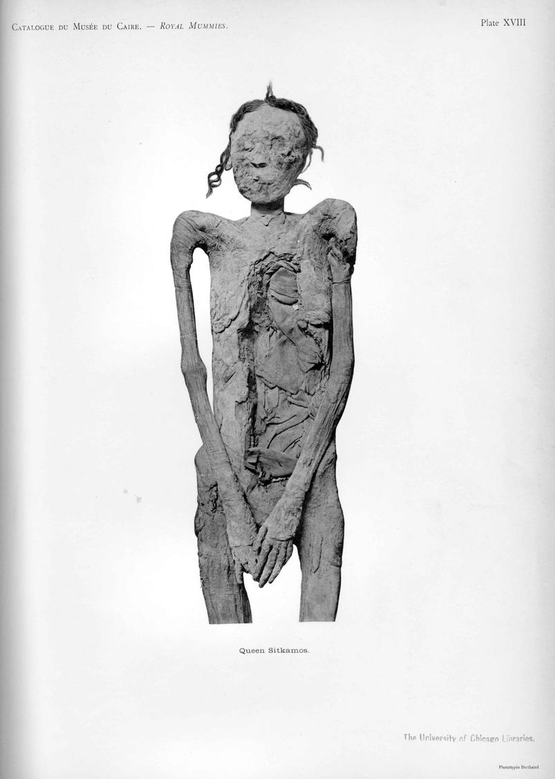 Mummie of Ahmose-Sitkamose